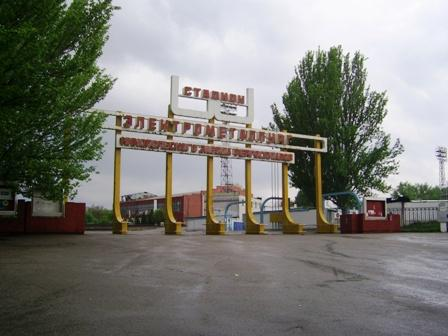 Elektrometalurh Stadium in Nikopol, Dnipropetrovsk Oblast, Ukraine